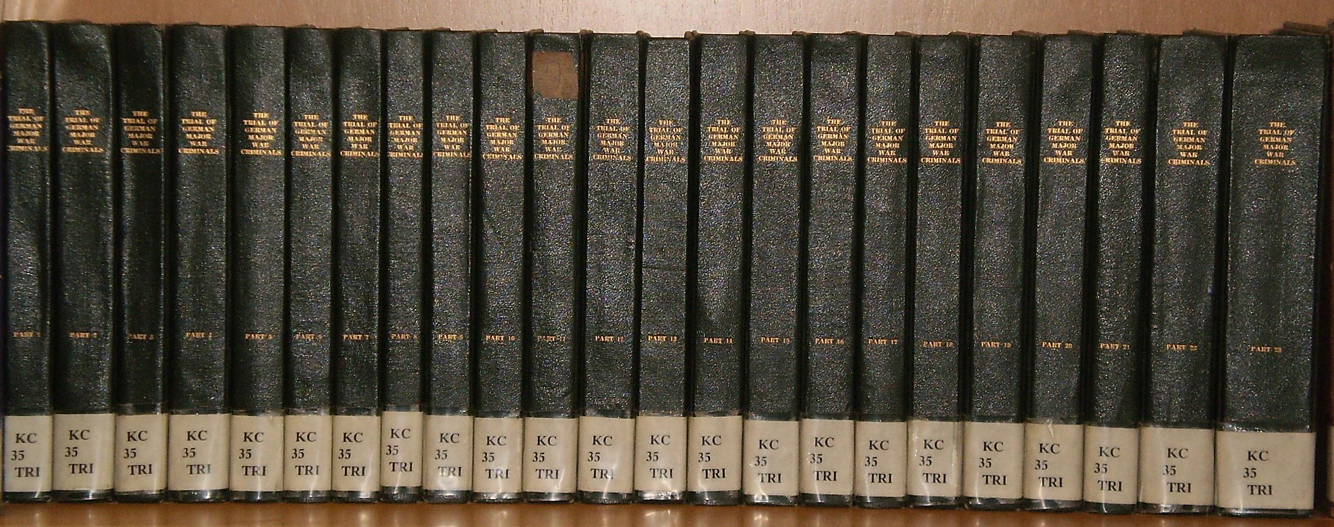 Israel supreme court - Nuremberg trials protocols